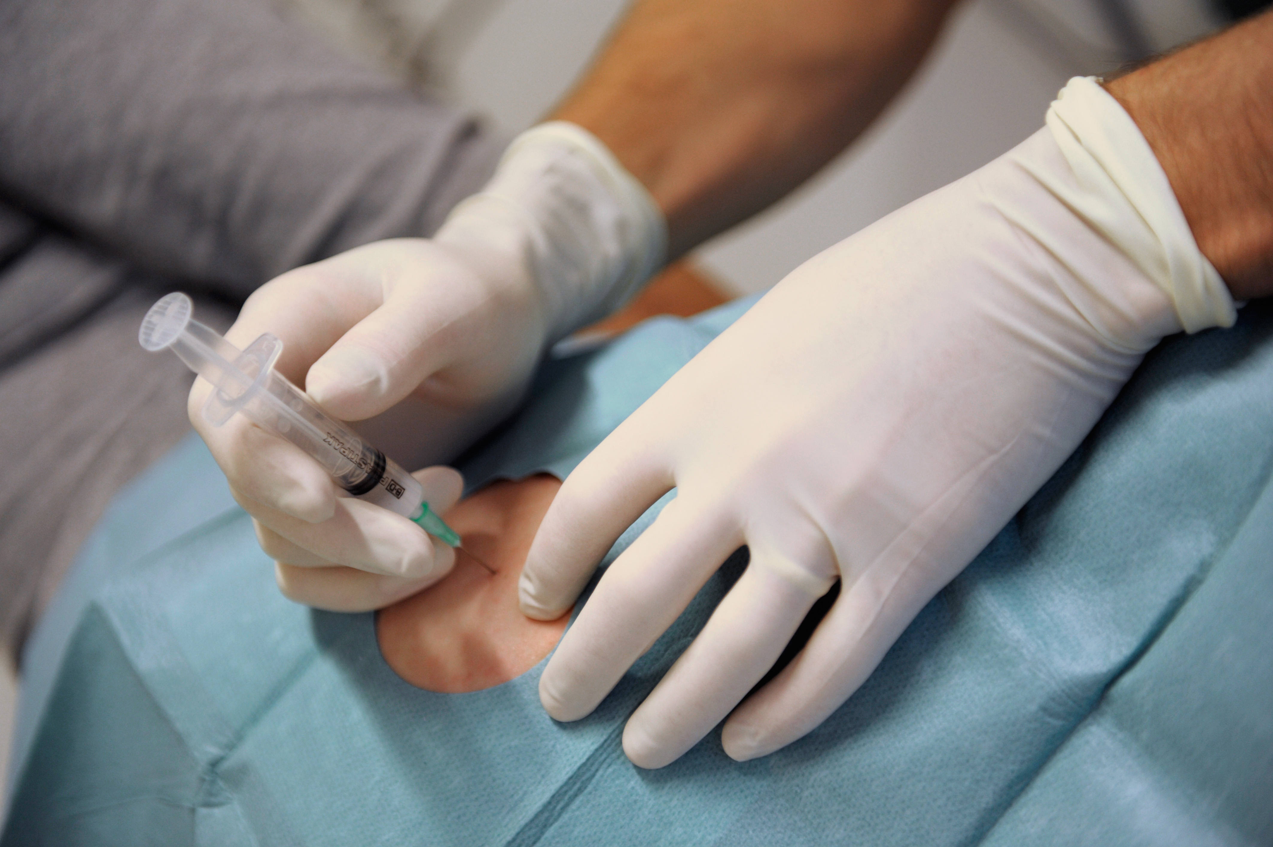 Spruta Keywords: Health, Care